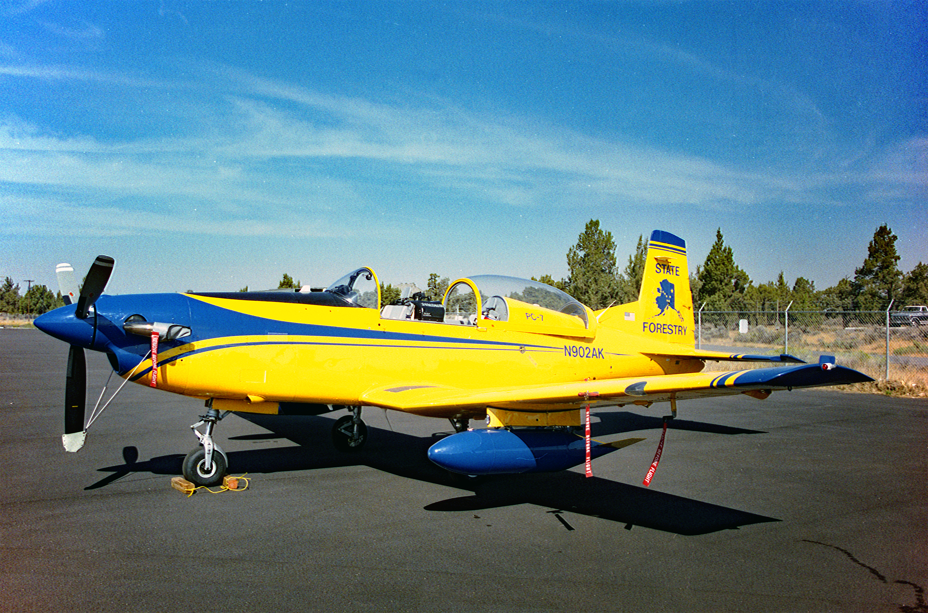 N902AK is flown by the Alaska Department of Forestry as a lead and air attack plane and to coordinate air tankers and spot new fires. Positioned at Redmond, Oregon, assisting to fight the B & B Complex fire.